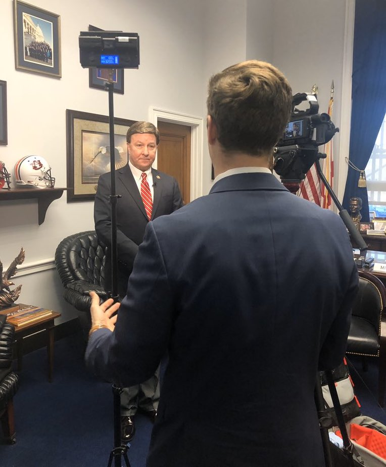 Interviewed this week with Peter Zampa from Gray TV to talk about the situation with Iran.